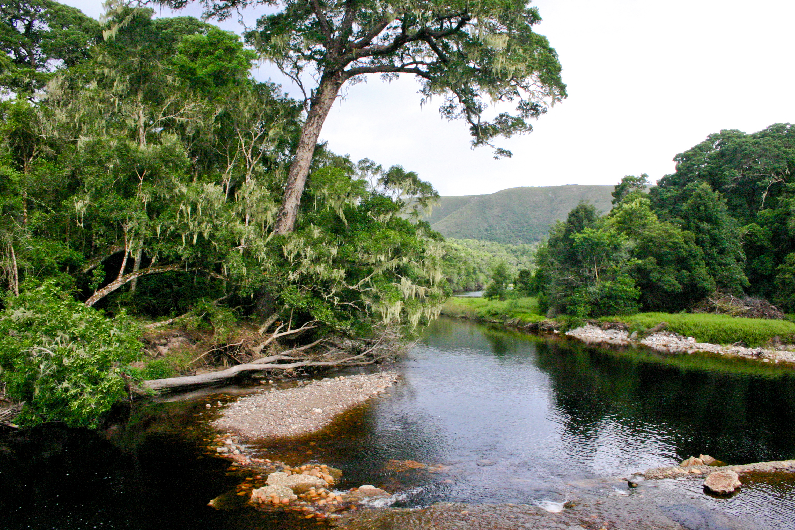 Groot River at Nature's Valley, Western Cape.